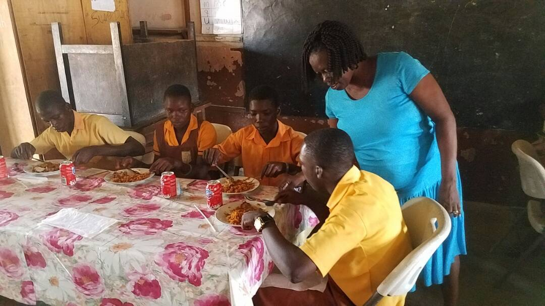 Etiquette training for students at a local government school in the Teshie Krobo district. This is an image of "African people at work" from Ghana